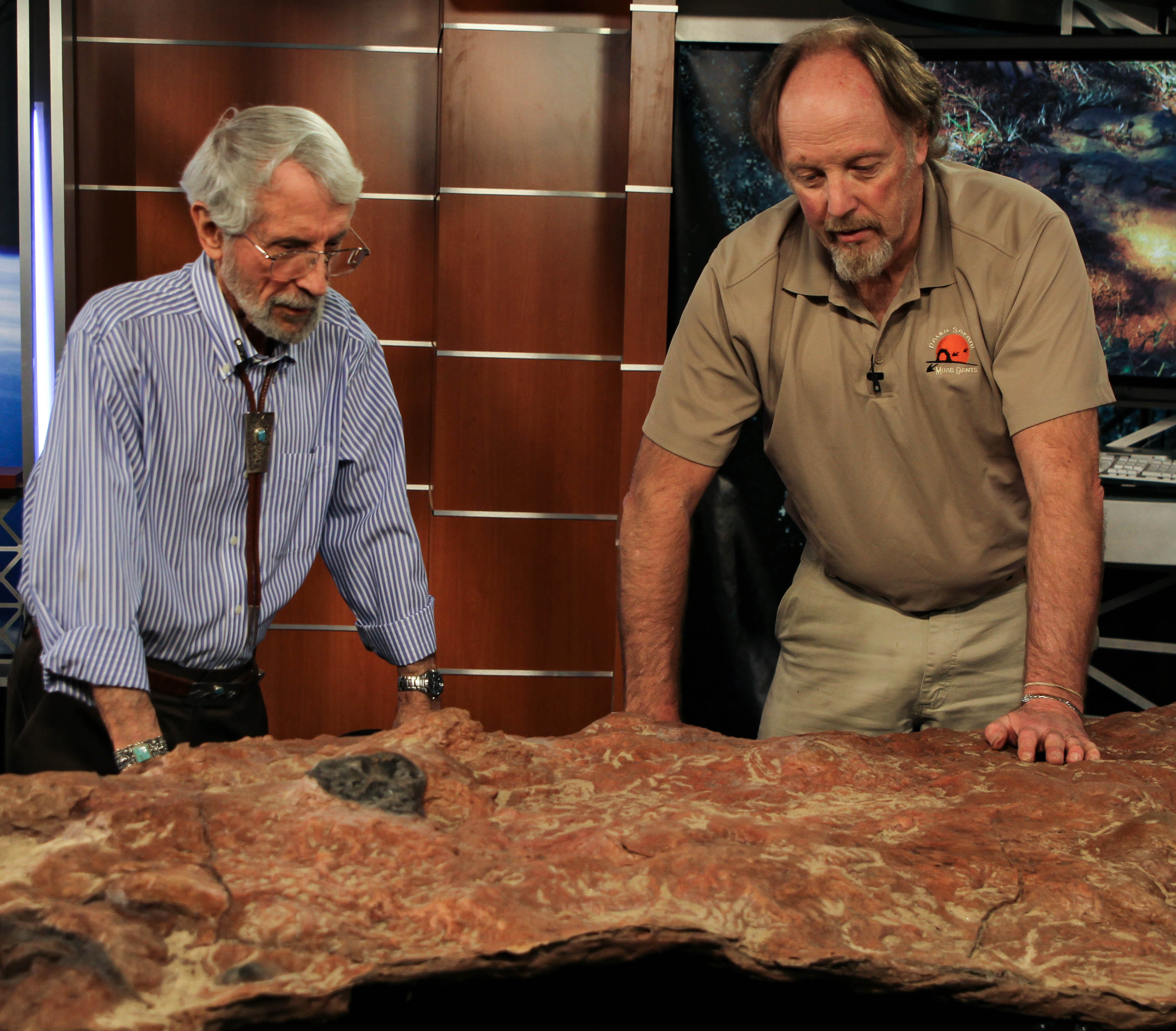 Ray Stanford (left), local dinosaur track expert, and Martin Lockley, paleontologist from the University of Colorado at Denver, discuss a cast of the sandstone slab imprinted with more than 70 dinosaur and mammal tracks that Stanford discovered at Goddard Space Flight Center in 2012. Credit: NASA/Goddard/Rebecca Roth